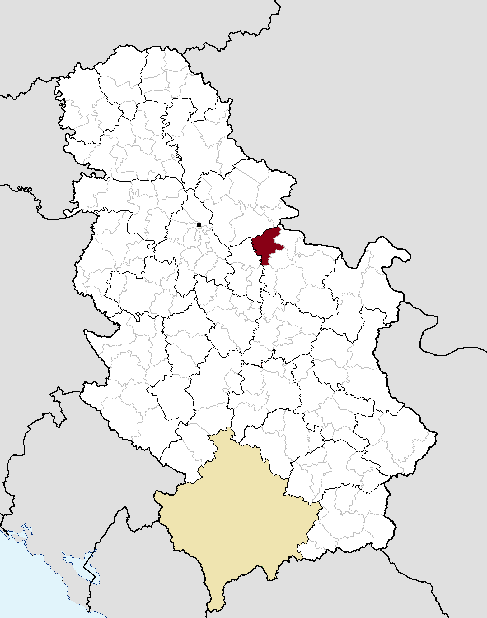 Municipal location in Serbia